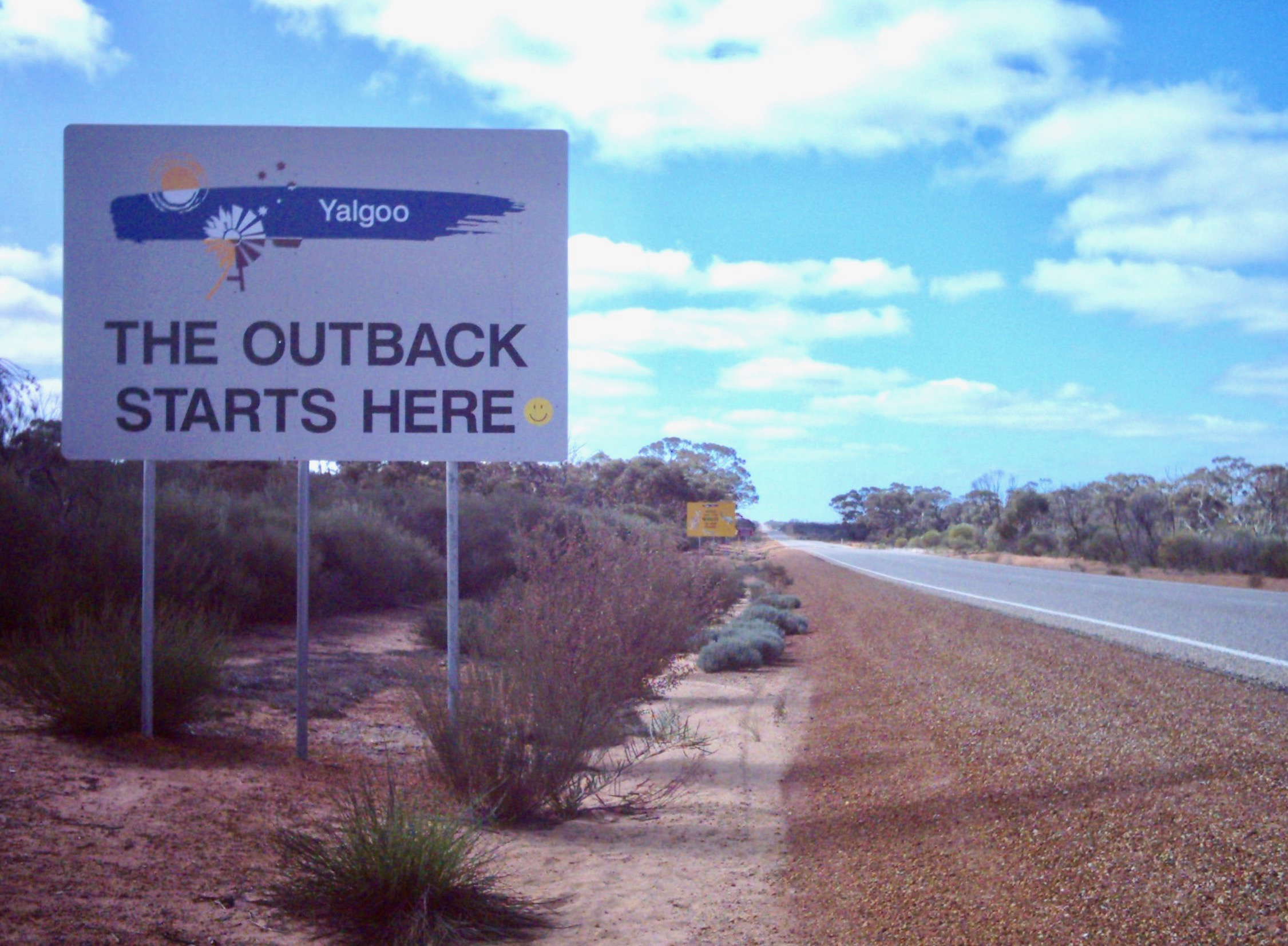 Yalgoo shire boundary on the Great Northern Highway Near Mt Gibson. Photo taken and uploaded by User:Gnangarra